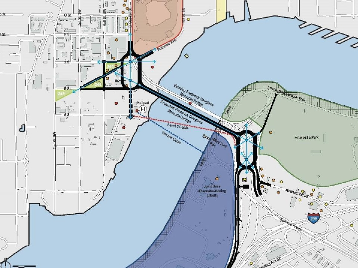 Map showing the existing Frederick Douglass Memorial Bridge and the proposed replacement bridge, along with traffic ovals and other new elements, as submitted to the National Capitol Planning Commission on November 7, 2013.